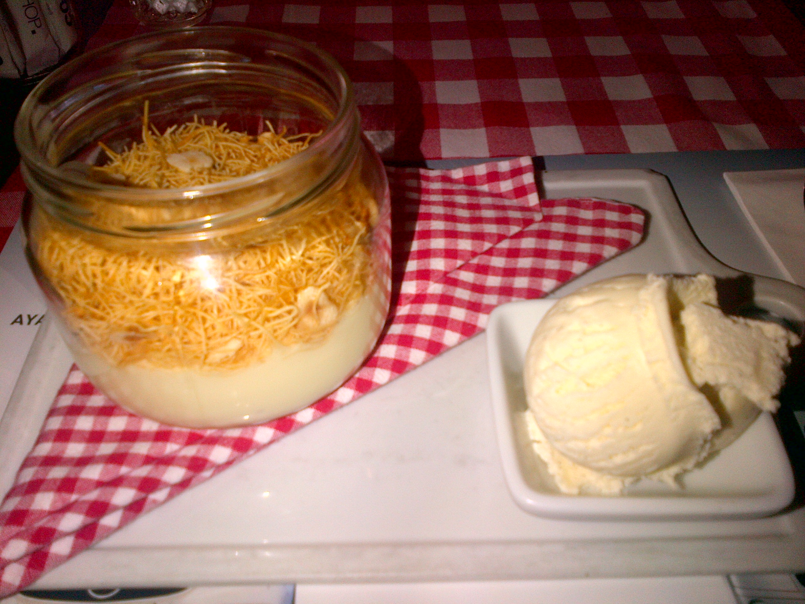 A jar with Turkish milk pudding "muhallebi" and "tel kadaif" on top, accompanied by vanilla ice cream (dondurma).